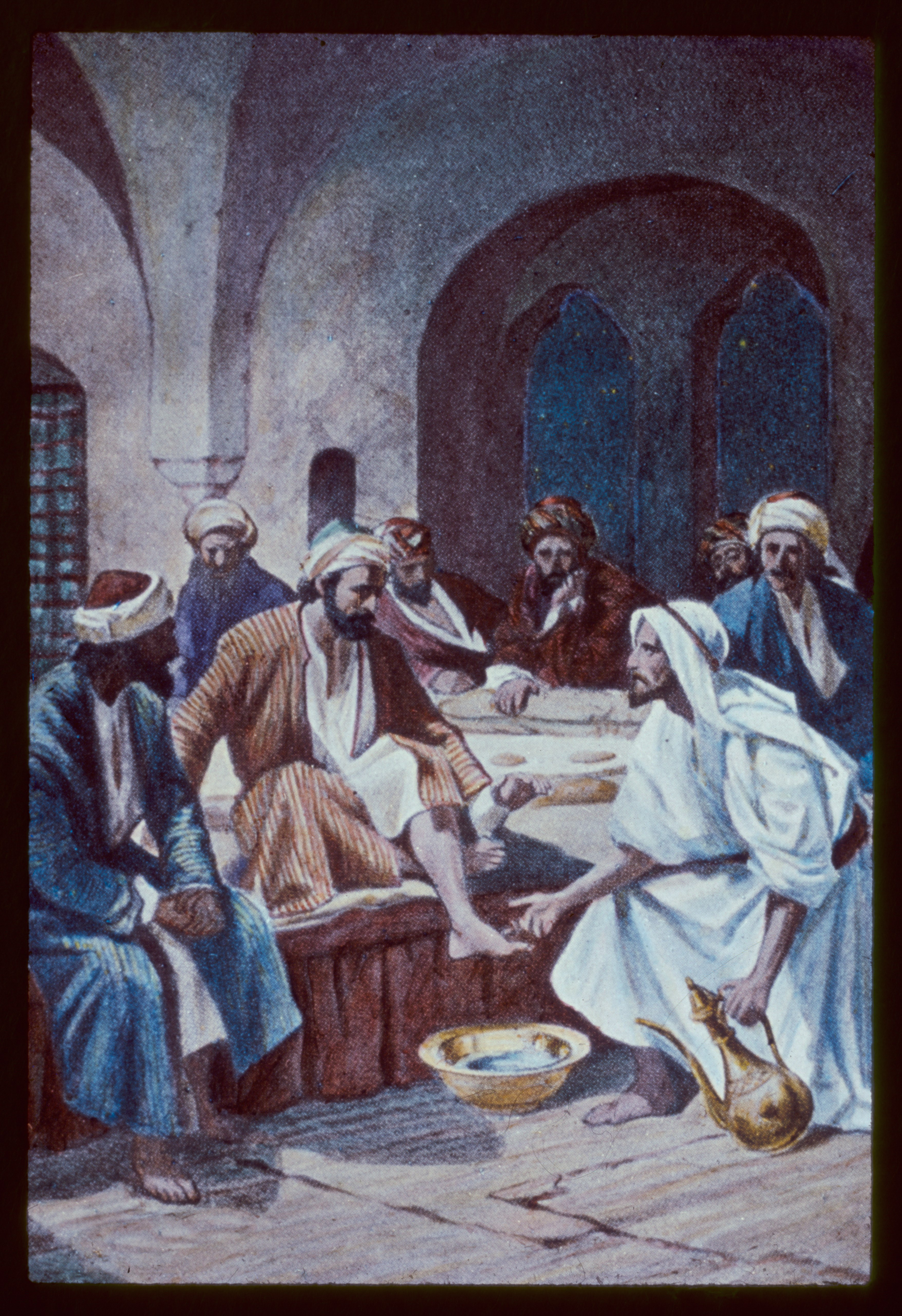 Title: John 13:1-10. Jesus, with the twelve, partaketh of the passover feast in an upper chamber. He teacheth humility by washing the disciples' feet Abstract/medium: G. Eric and Edith Matson Photograph Collection Physical description: 1 slide